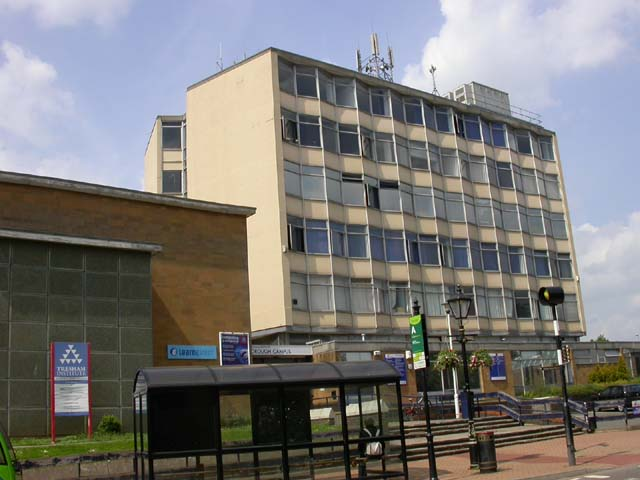 Tresham Institute of Further and Higher Education. The main campus is in Kettering. As an associate college of De Montfort University, the Institute can offer some Degree courses as well as Diplomas, Certificates, IT and leisure courses. One of the shelters of Wellingborough Bus Station can be seen in the foreground.